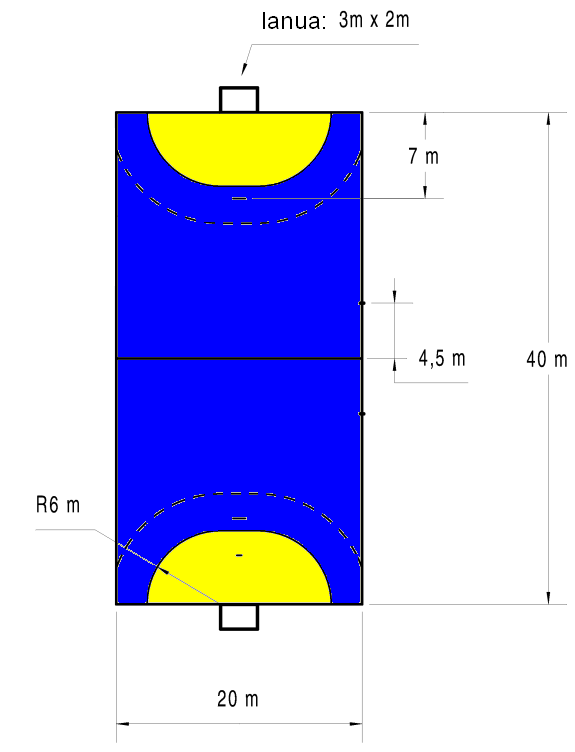 handball field - Latin